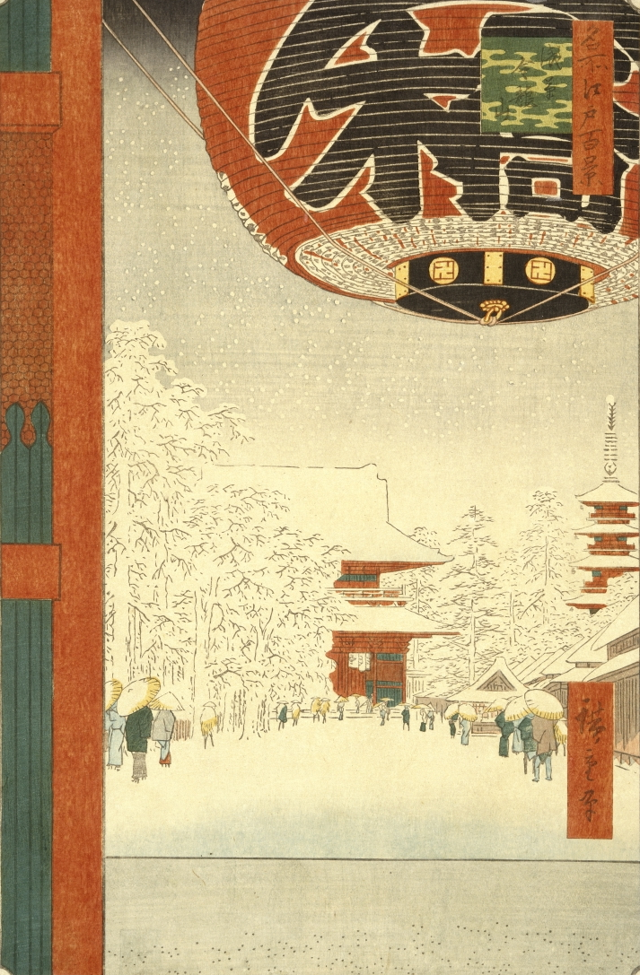 Part of the series One Hundred Famous Views of Edo, no. 099, part 4: Winter.